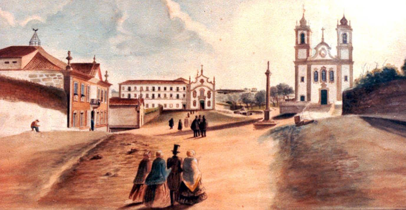 Saint Christine's Square, in Viseu. 19th-century painting by António José Pereira.